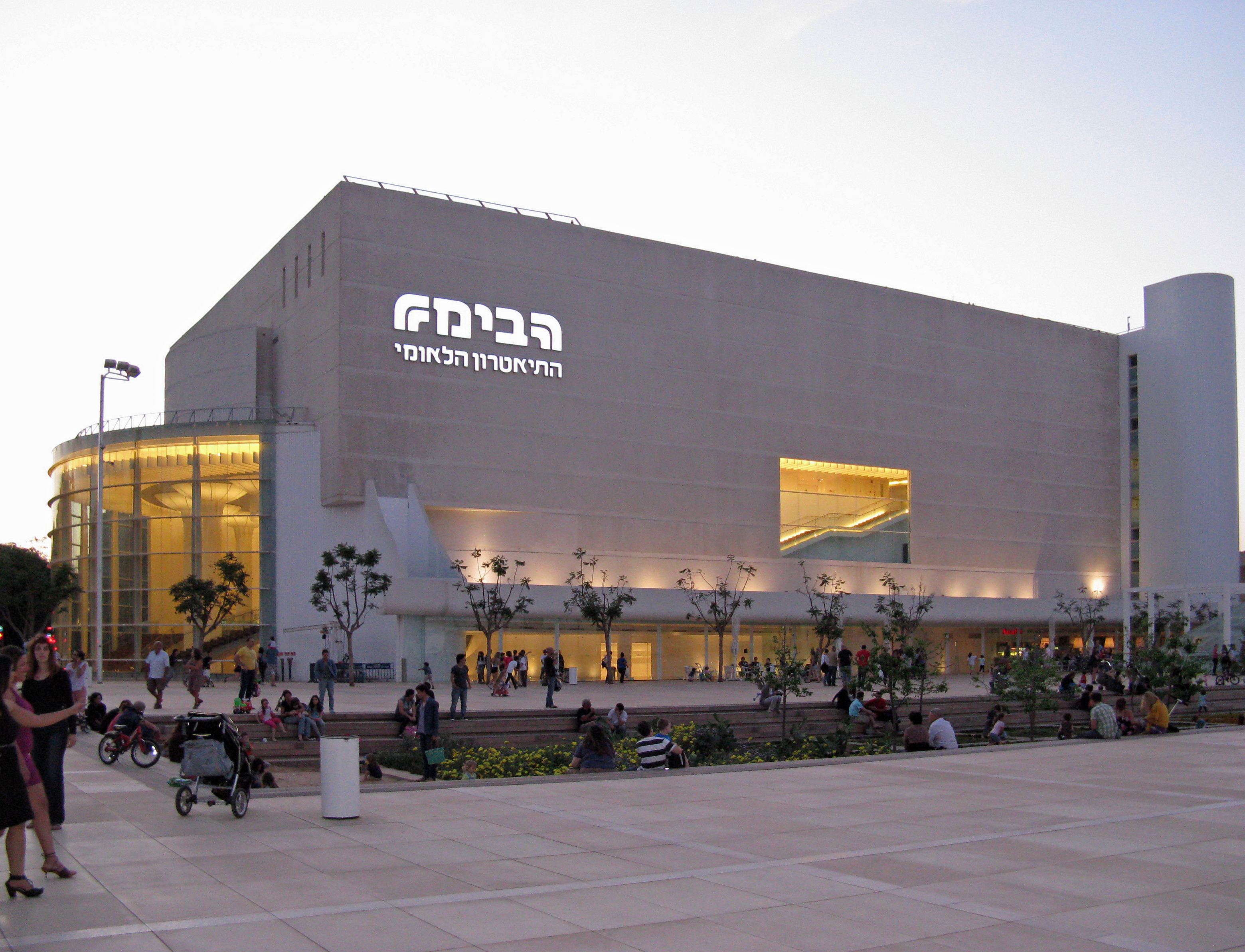 Habima Theatre building in Tel Aviv.